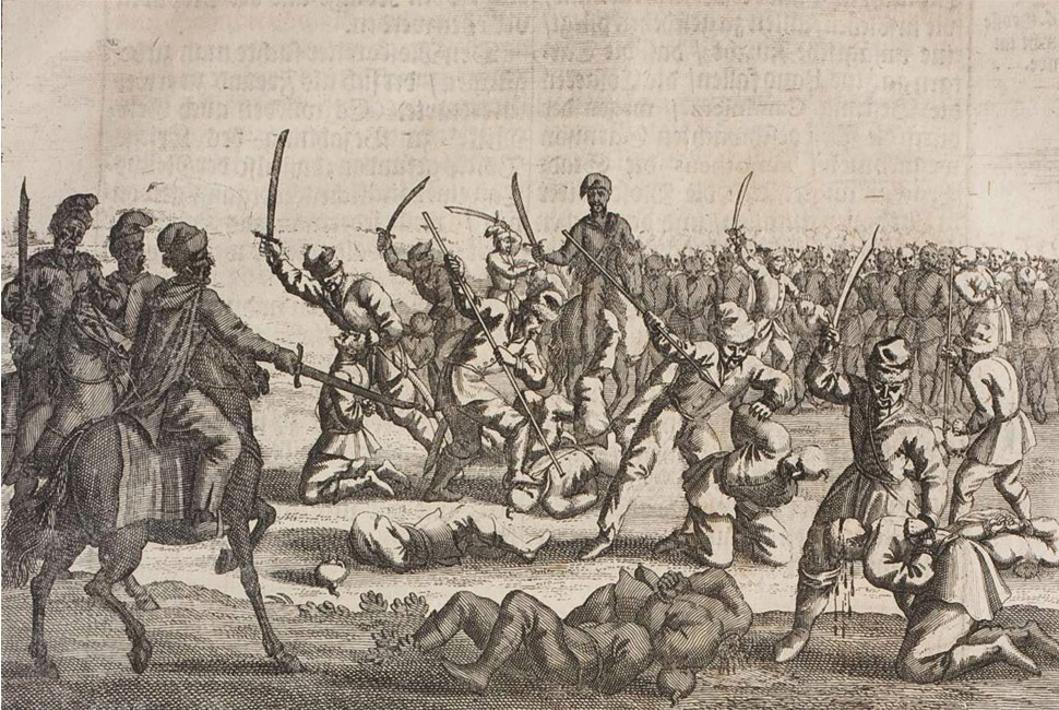 Execution of Polish captives after the battle of Batoh 1652.